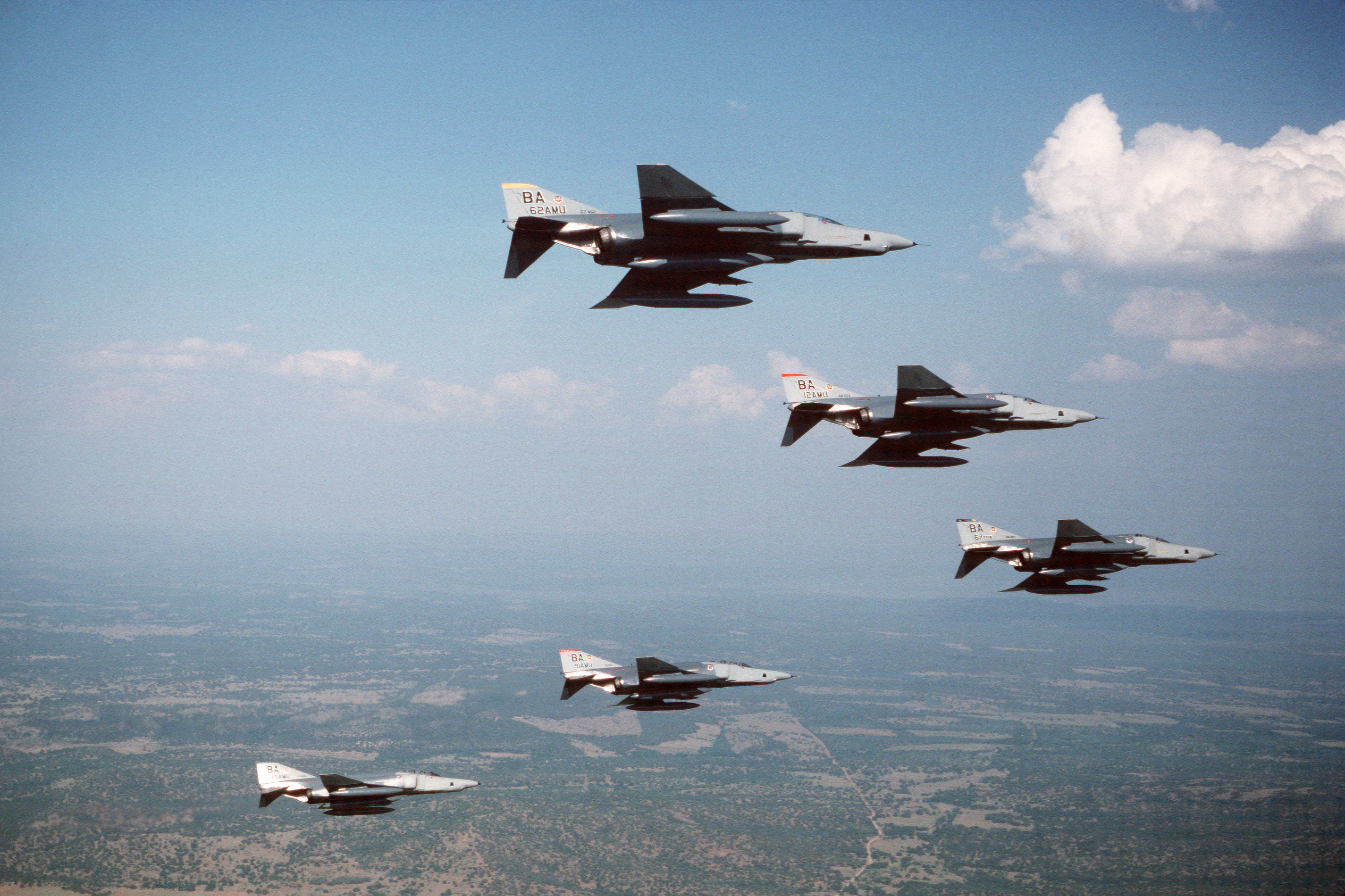 Five U.S. Air Force McDonnell Douglas RF-4C Phantom II aircraft of the 67th Tactical Reconnaissance Wing based at Bergstrom Air Force Base, Austin, Texas (USA), on 11 May 1988. The aircraft represent four different squadrons: 62nd Tactical Reconnaissance Training Squadron (yellow tail); 12th Tactical Reconnaissance Squadron (orange tail); 91st Tactical Reconniassance Squadron (red tail) and 45th Tactical Reconnaissance Training Squadron (black check tail). The lead aircraft is the wing commanders aircraft, that finflash represents all four squadrons.